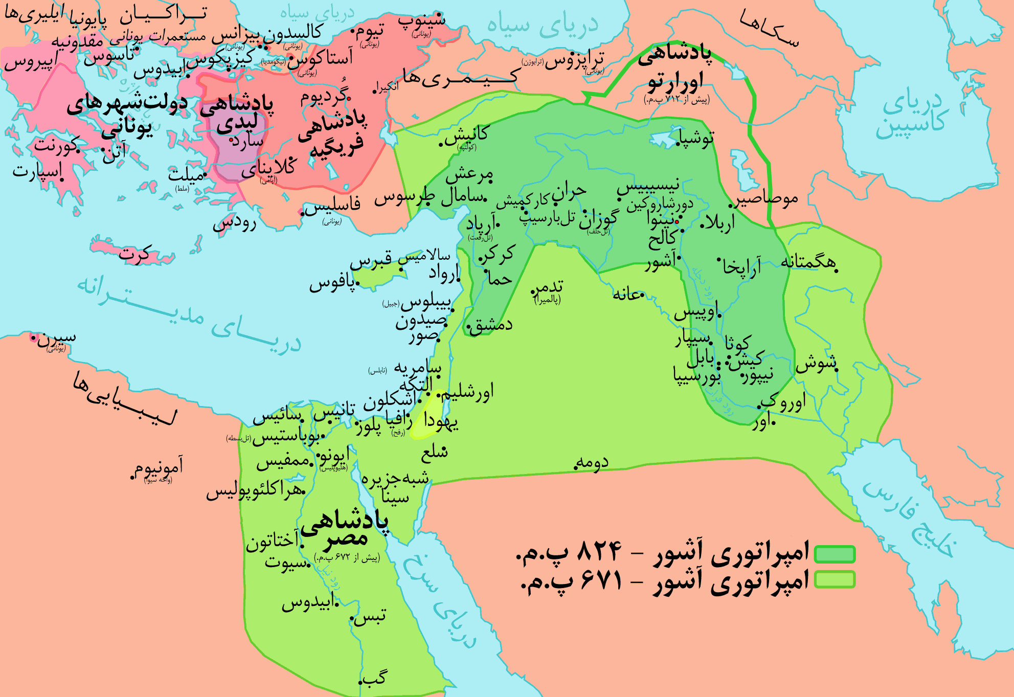 Map of the Assyrian Empire